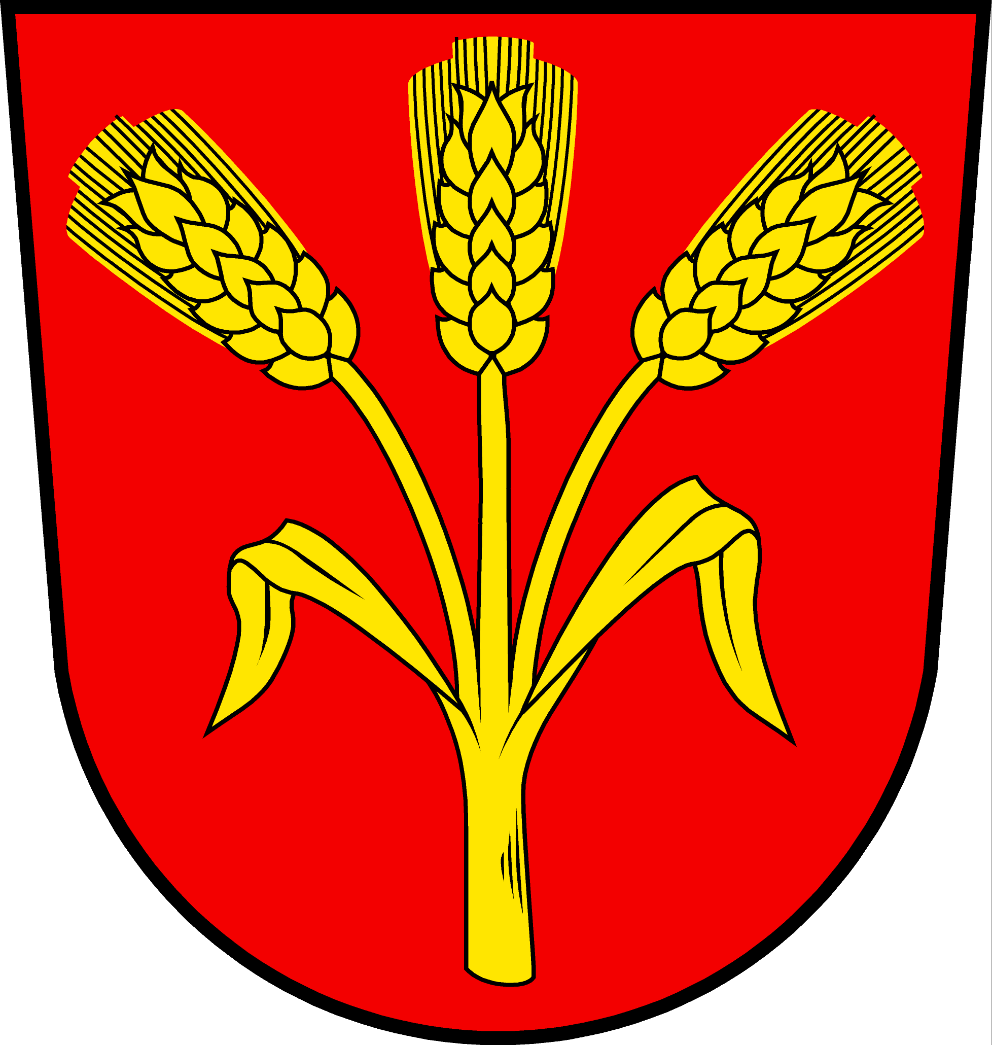 Coat of arms of the imperial abbey of Roggenburg (Germany)